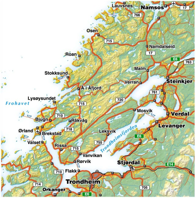 Map over the Fosen peninsula and Trondhemsfjorden.